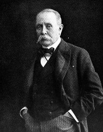 Photographic image of American author and journalist Charles Henry Webb (1834-1905). From The Critic, March 1902 (vol. XL, no. 3), page 208.